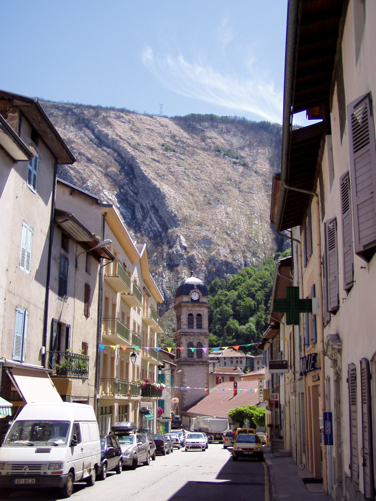 Pont-en-Royans, Isère, France.